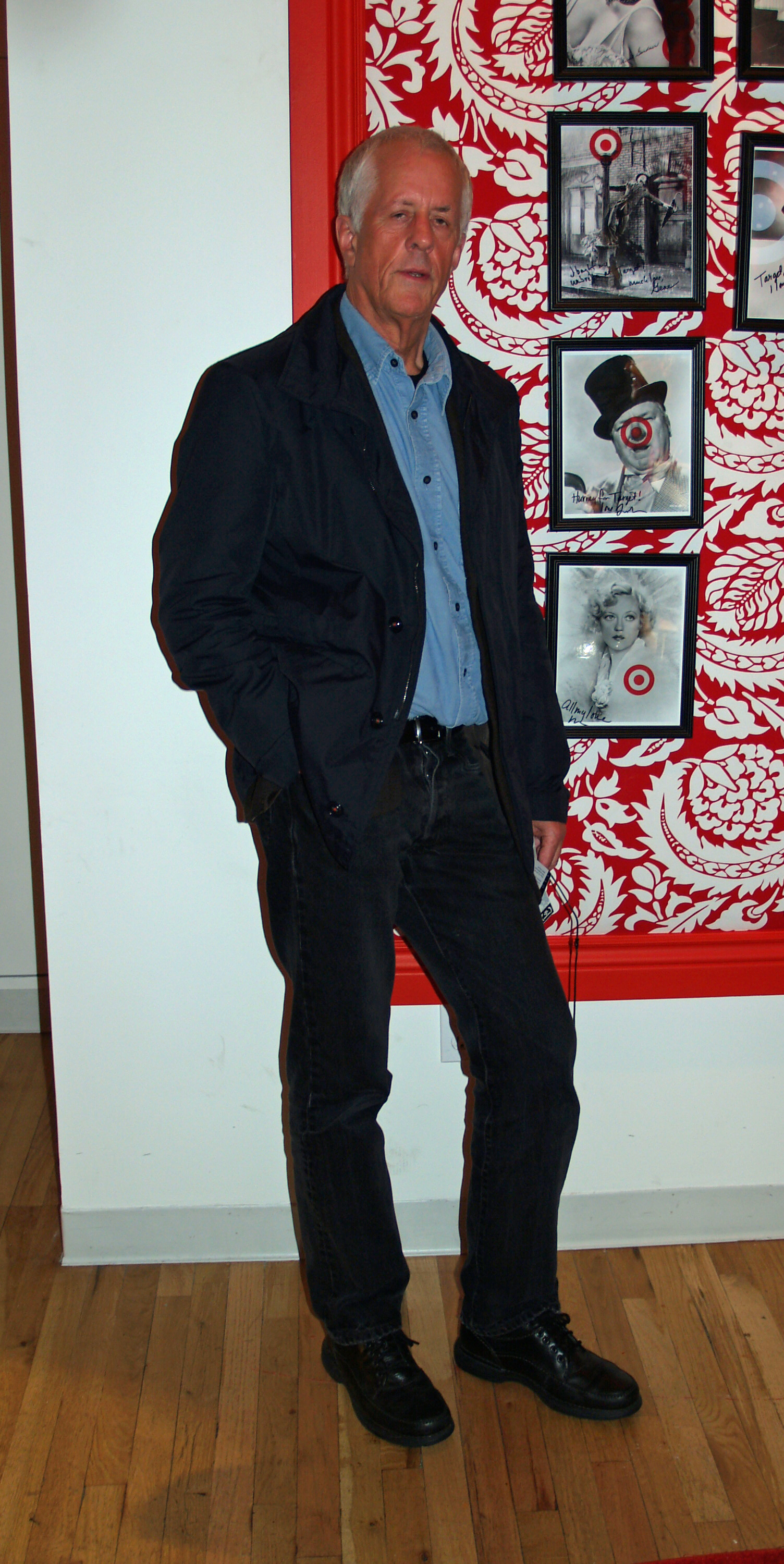 Michael Apted